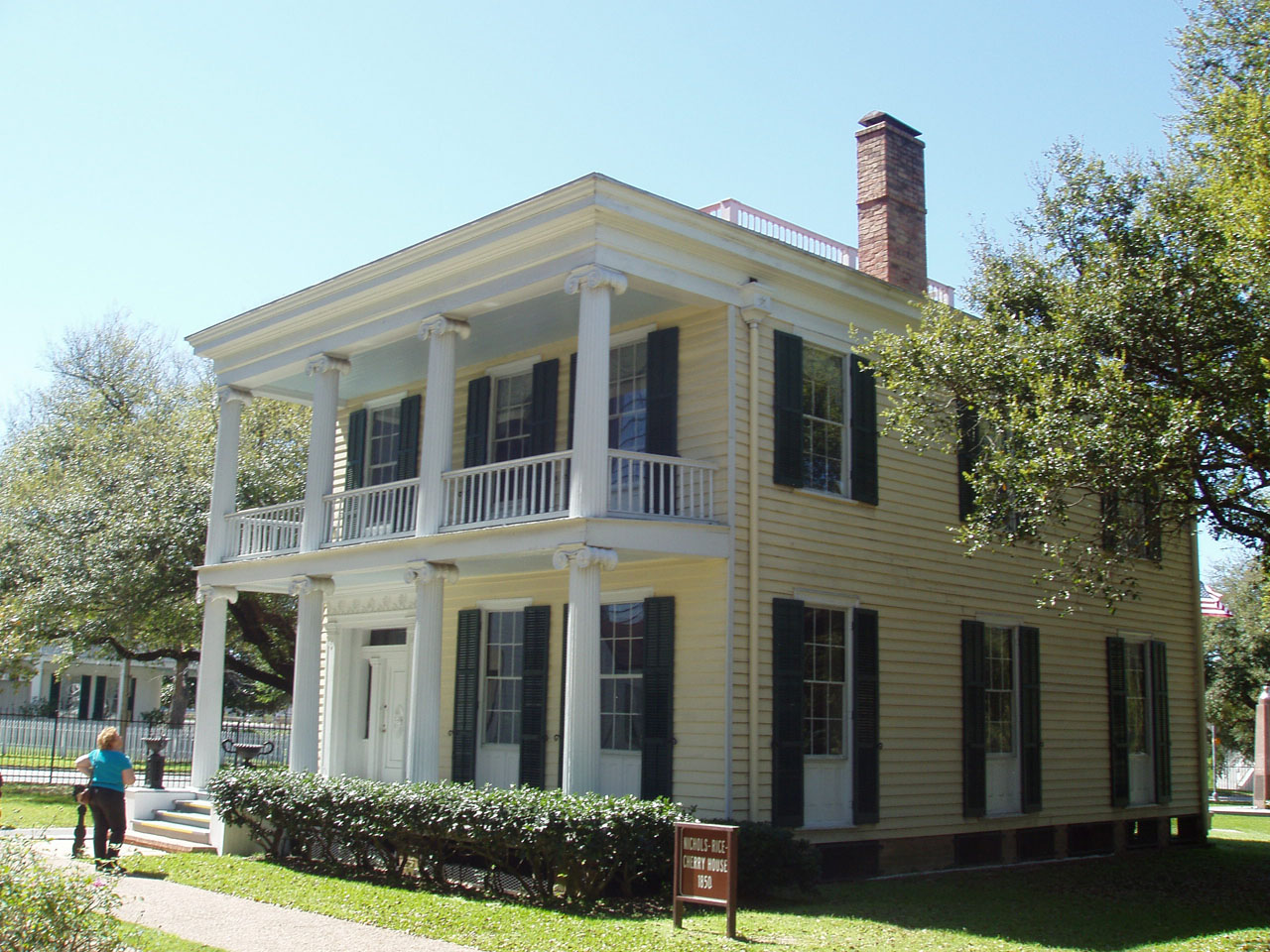 Nichols-Rice-Cherry House - This Greek Revival house was built about 1850 by New Yorker Ebeneezer B. Nichols. Between 1856 and 1873 it was owned by financier William Marsh Rice, whose estate helped create Rice Institute (now Rice University) in 1912.